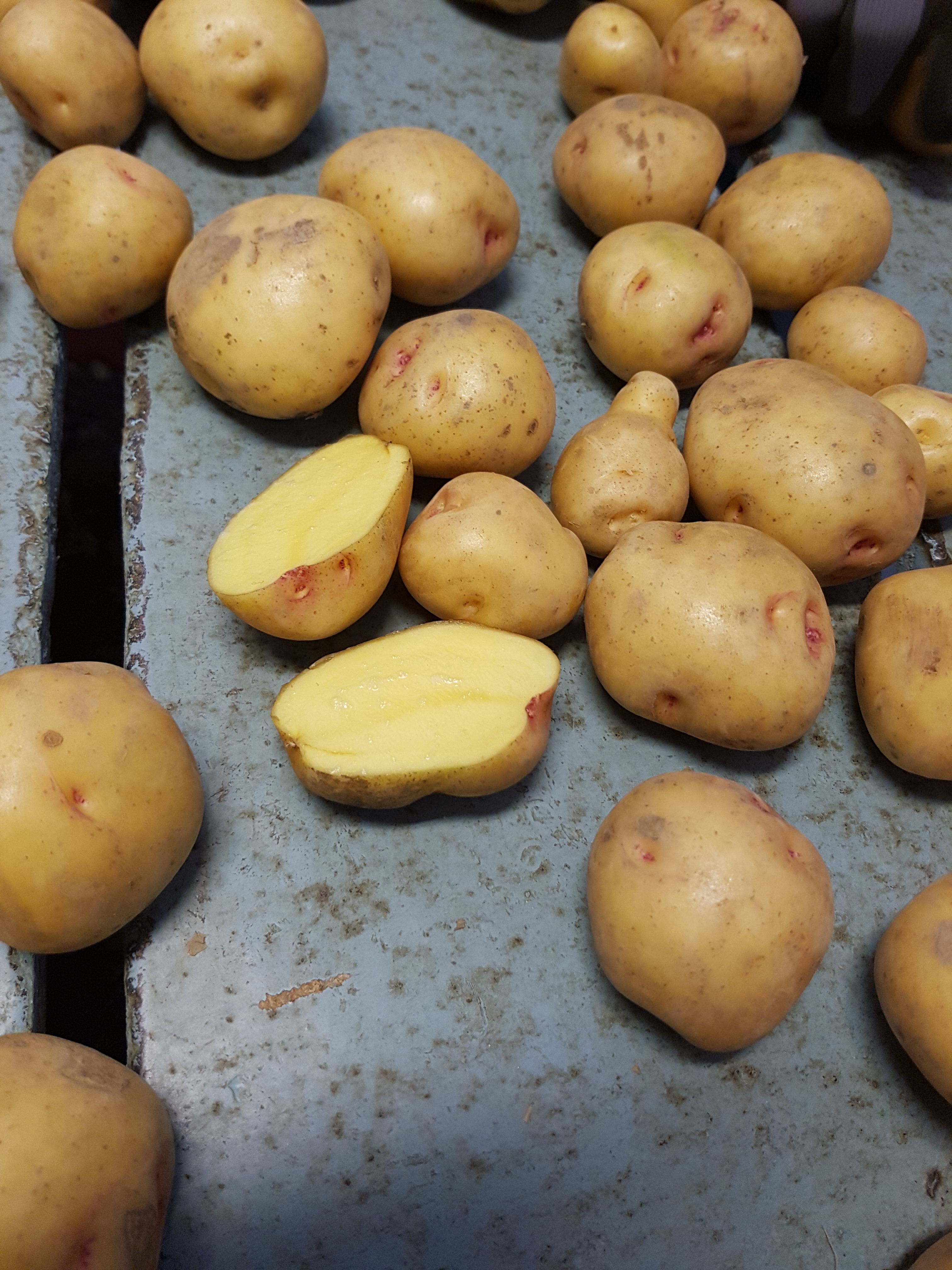 Potato cultivar Gullauga/Guldöje